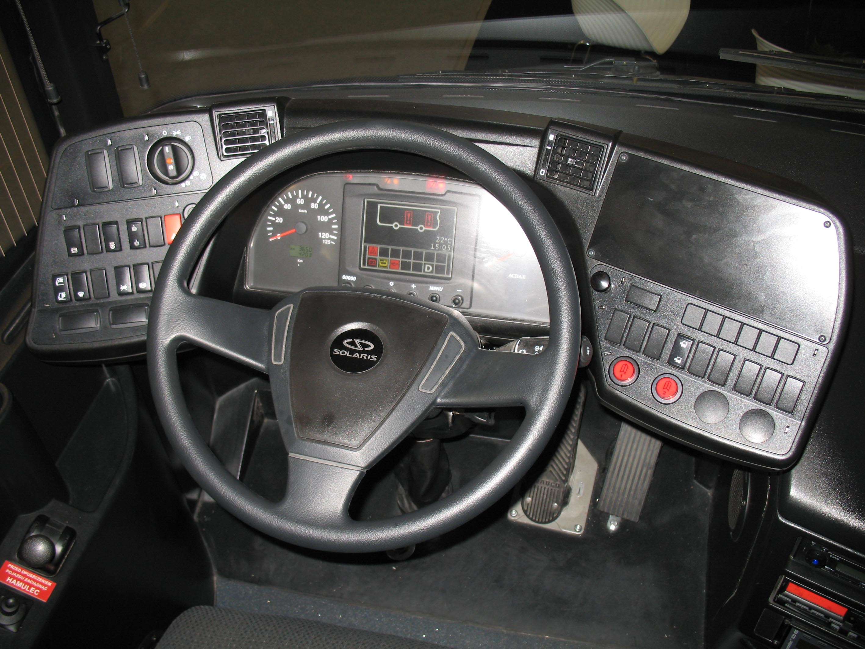 Solaris InterUrbino 12 intercity bus (prototype) cockpit in Kielce, Poland. Built 2009. Transexpo 2009.